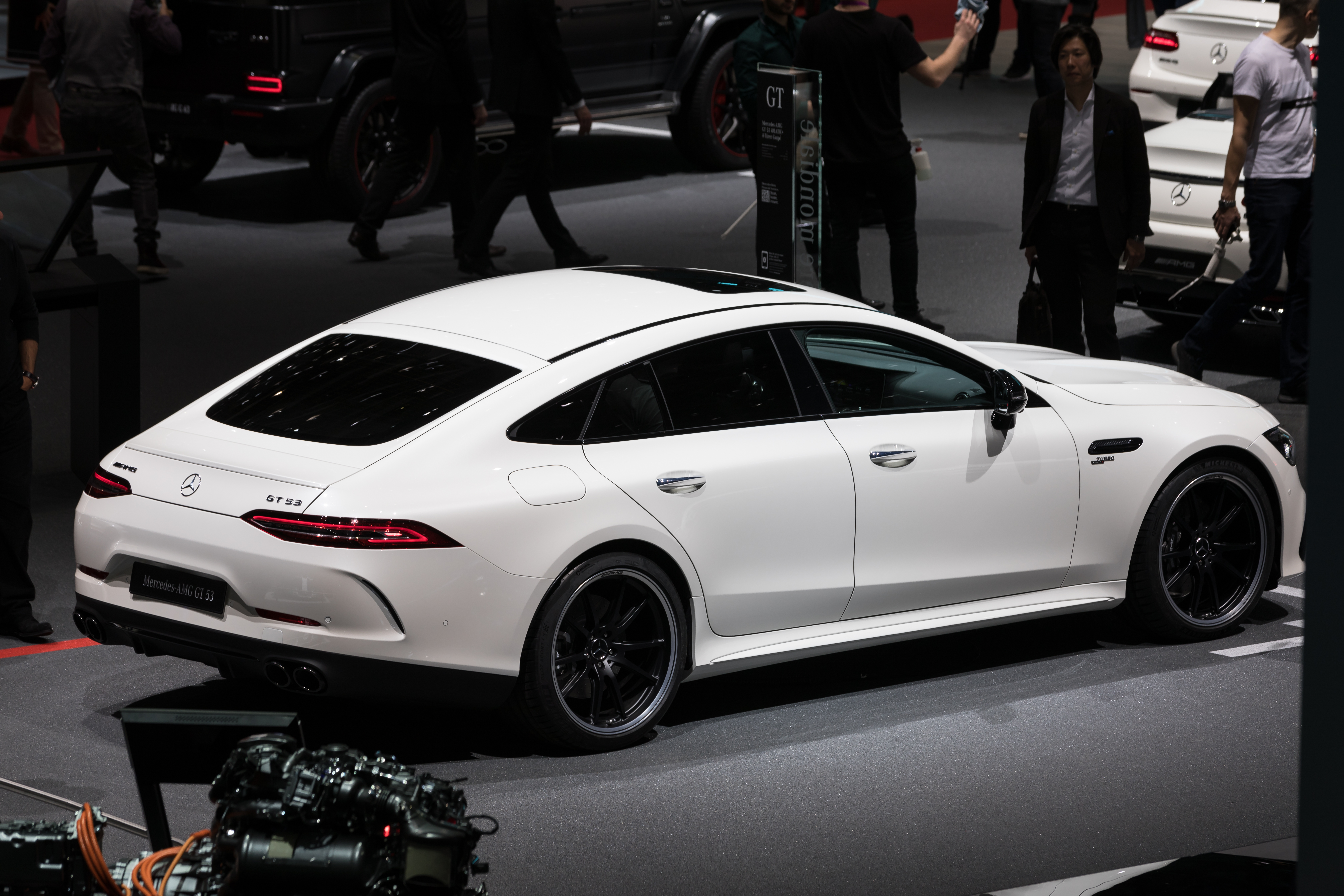 Geneva International Motor Show 2018